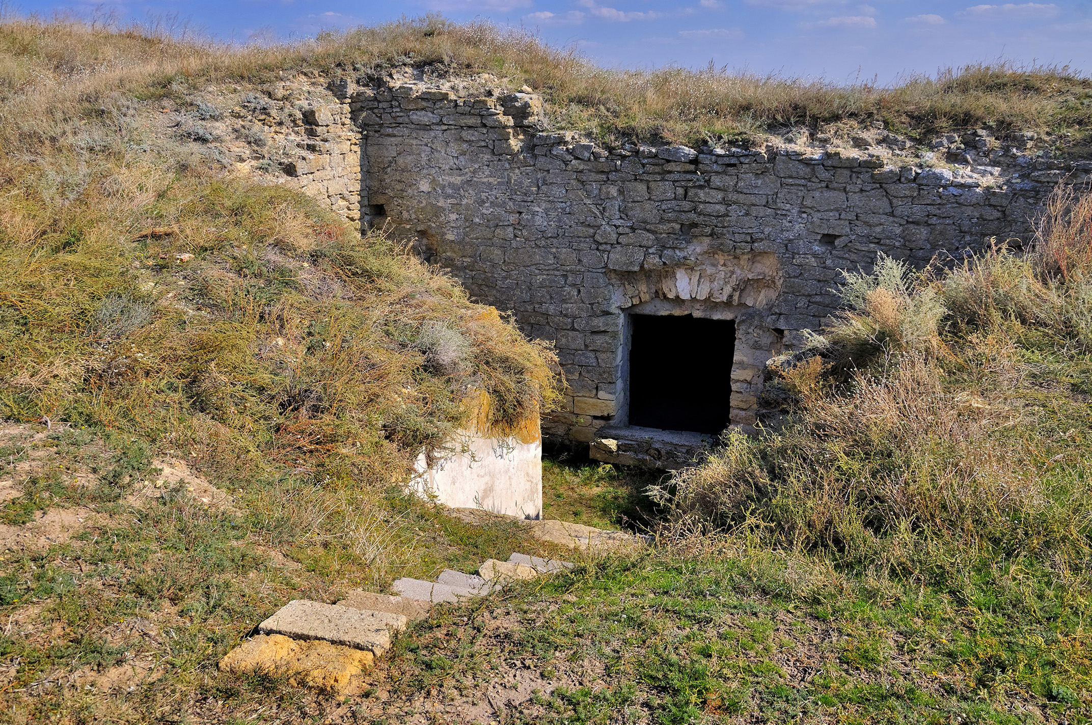 Cossack catacombs (dwellings and structures) on the territory of the former Kamianska Sich.